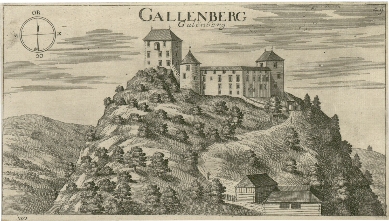 Gamberk Castle